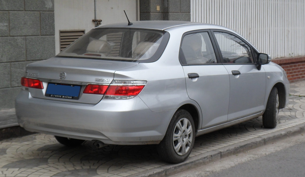 Everus S1 photographed in Shanghai, China.